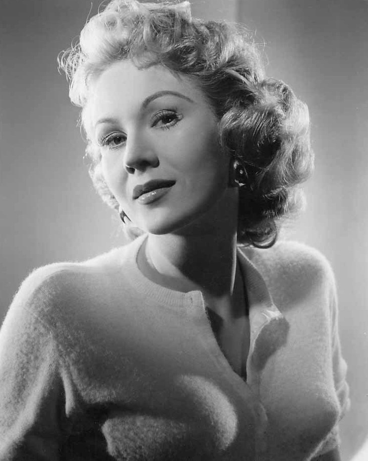 Publicity photo of Virginia Mayo.